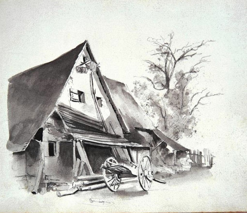 Old Farm in Benningen (manoeuvred drawing)